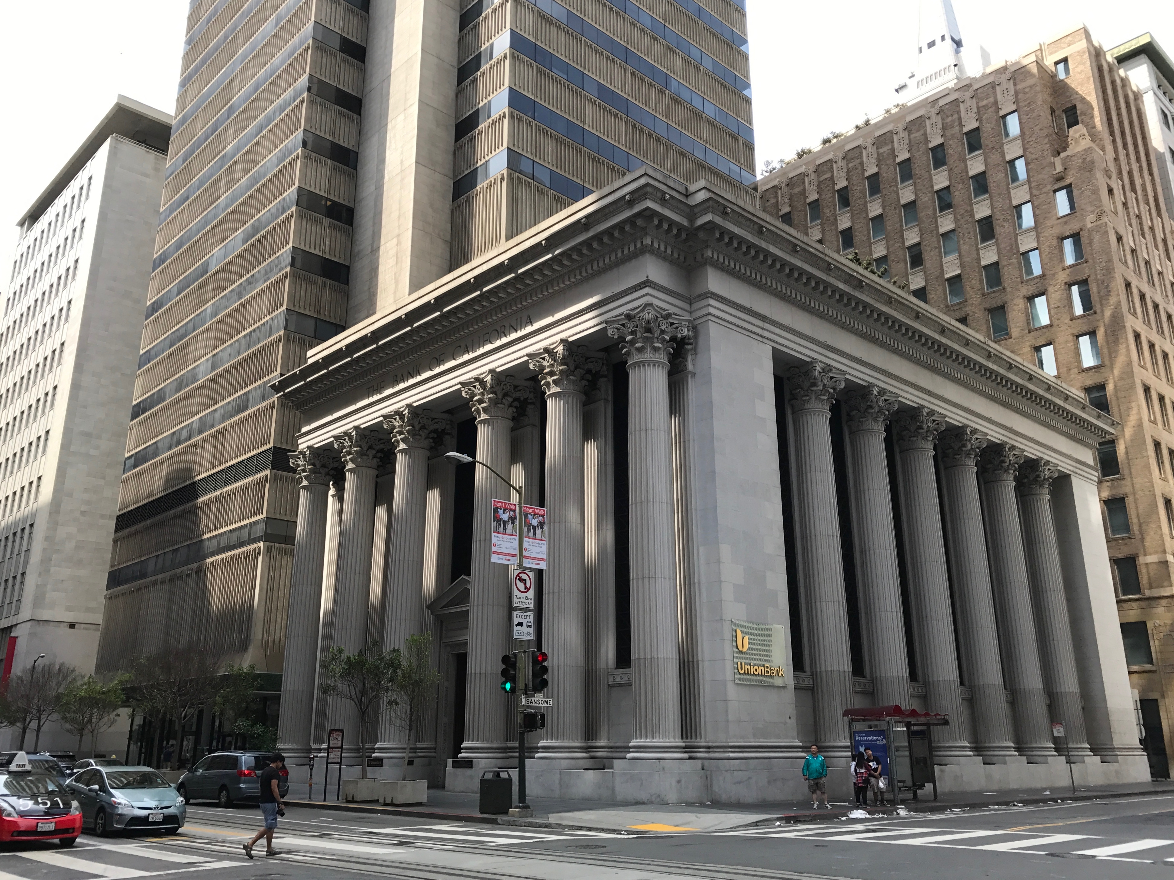 Landmark #3 on the San Francisco list of designated landmarks